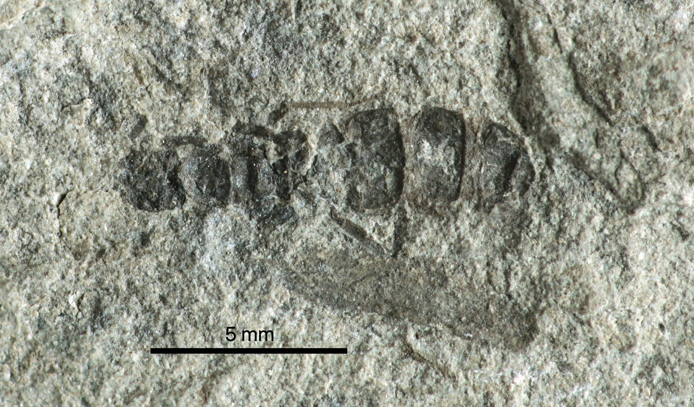 View of the Casaleia longiventris lectotype queen, impression side. (Synonym = Formica longiventris) Universalmuseum Joanneum Graz specimen UMJ77584. Universalmuseum Joanneum Graz, Styria, Austria. Burdigalian; Radoboj deposits; Radoboj area, Krapinsko-Zagorska, Croatia.